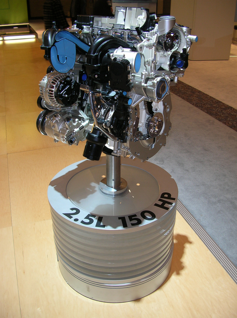 Volkswagen 2.5L Engine